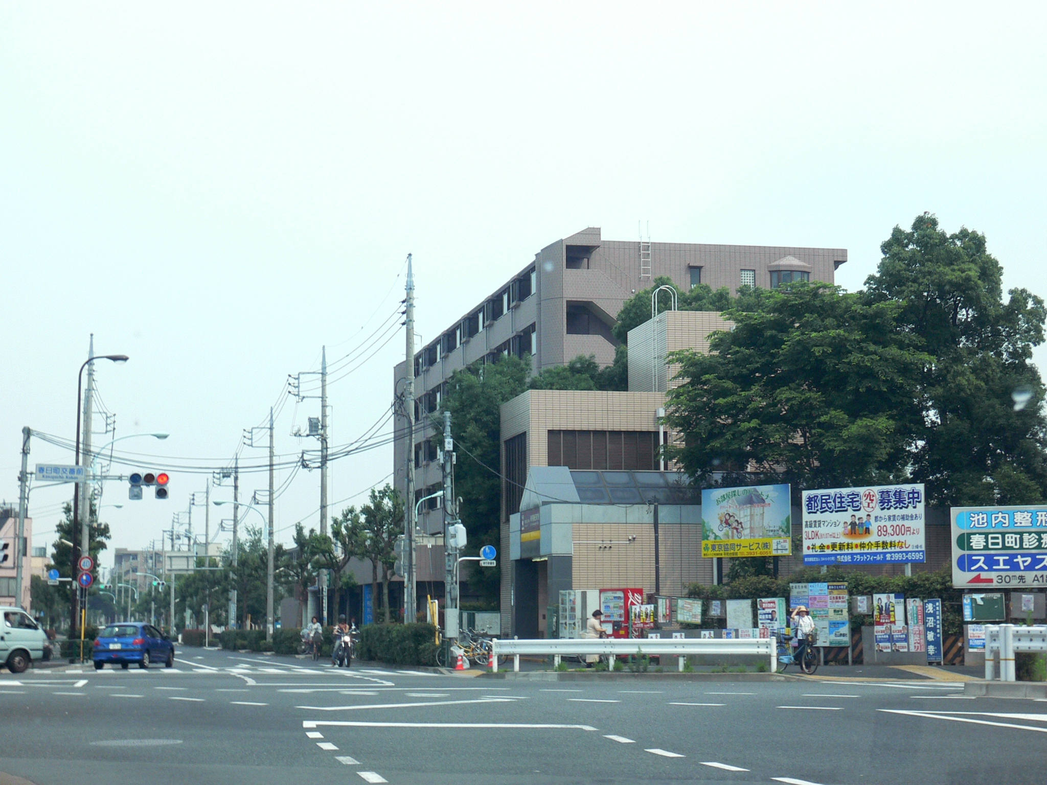 Nerimakasugacho Station(練馬春日町駅),Nerima W, Tokyo.